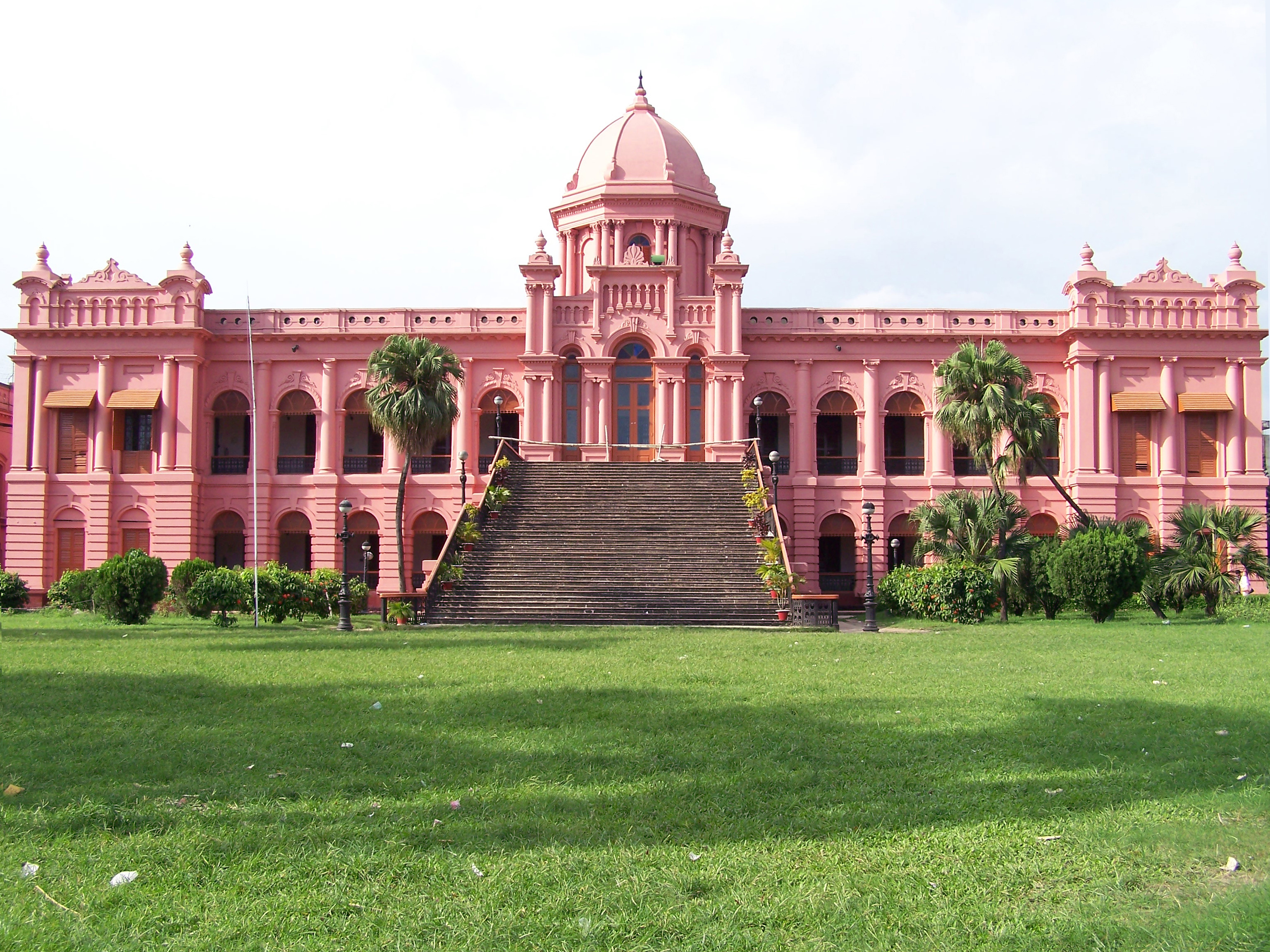 Author: This image was taken by Mohammad Jobaed Adnan for public use. This image was taken from Bangladesh.